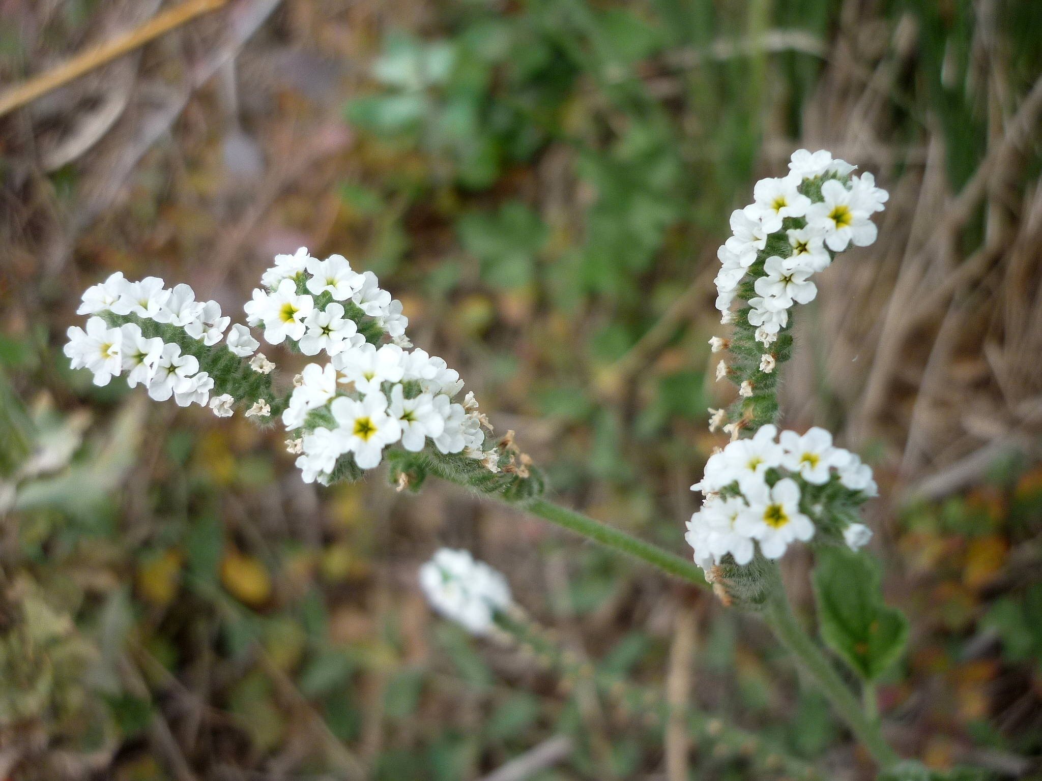 Heliotropium europaeum. In Torà (Segarra-Catalunya). To 585 m. altitude